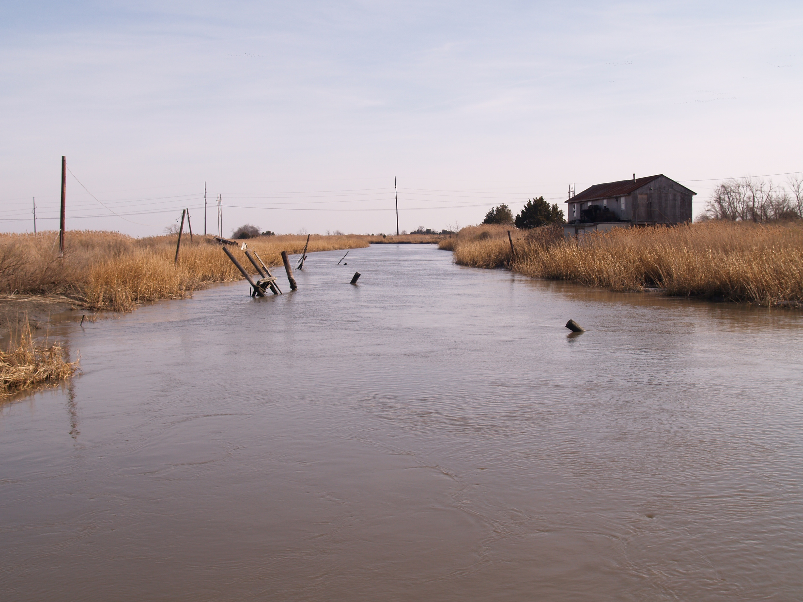 View of Little Creek from the DE 9 in 2008, just south of the Town of Little Creek, Delaware.